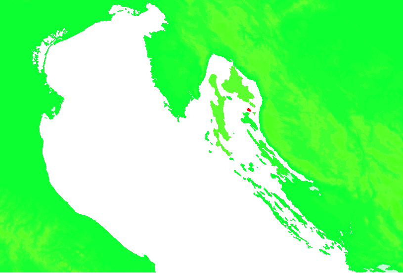 Island of Croatia Croatia - Grgur.PNG